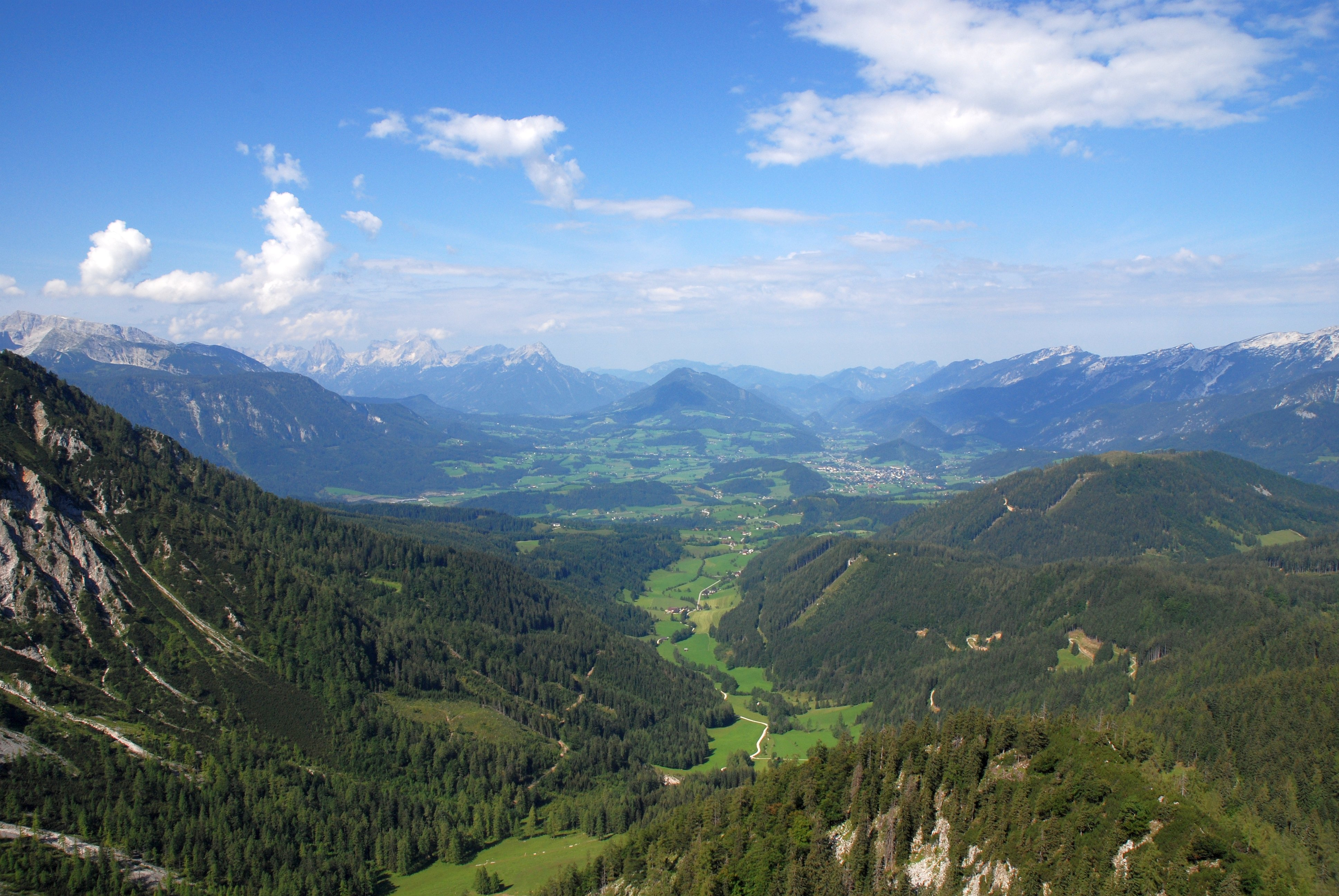 Windischgarstner Becken as seen from Mannsberg